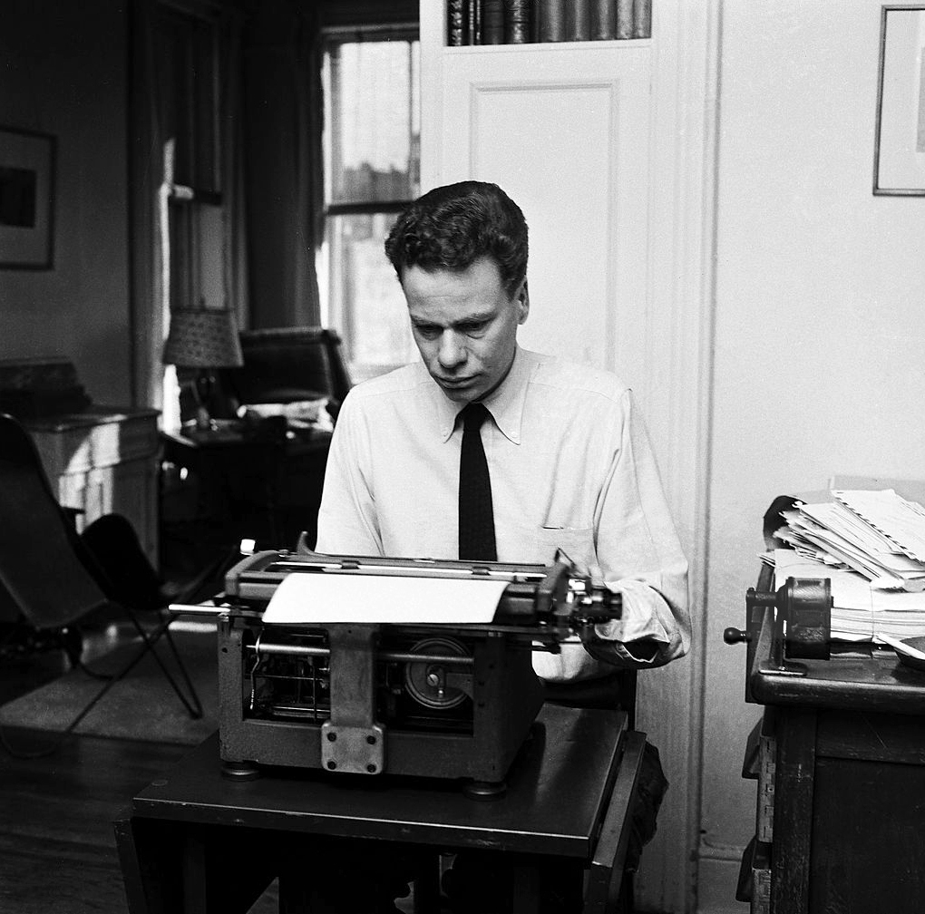 Photograph of Charles Van Doren at home, at his typewriter